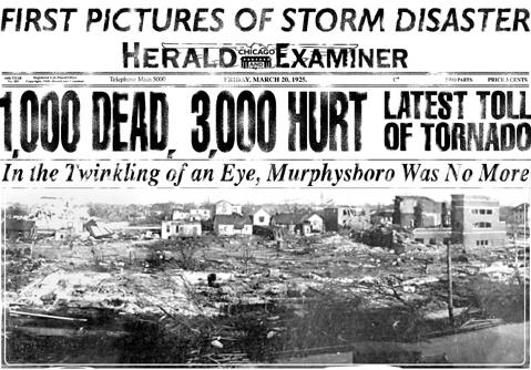 A Herald Examiner headline covering the Great Tri-State Tornado of 1925.